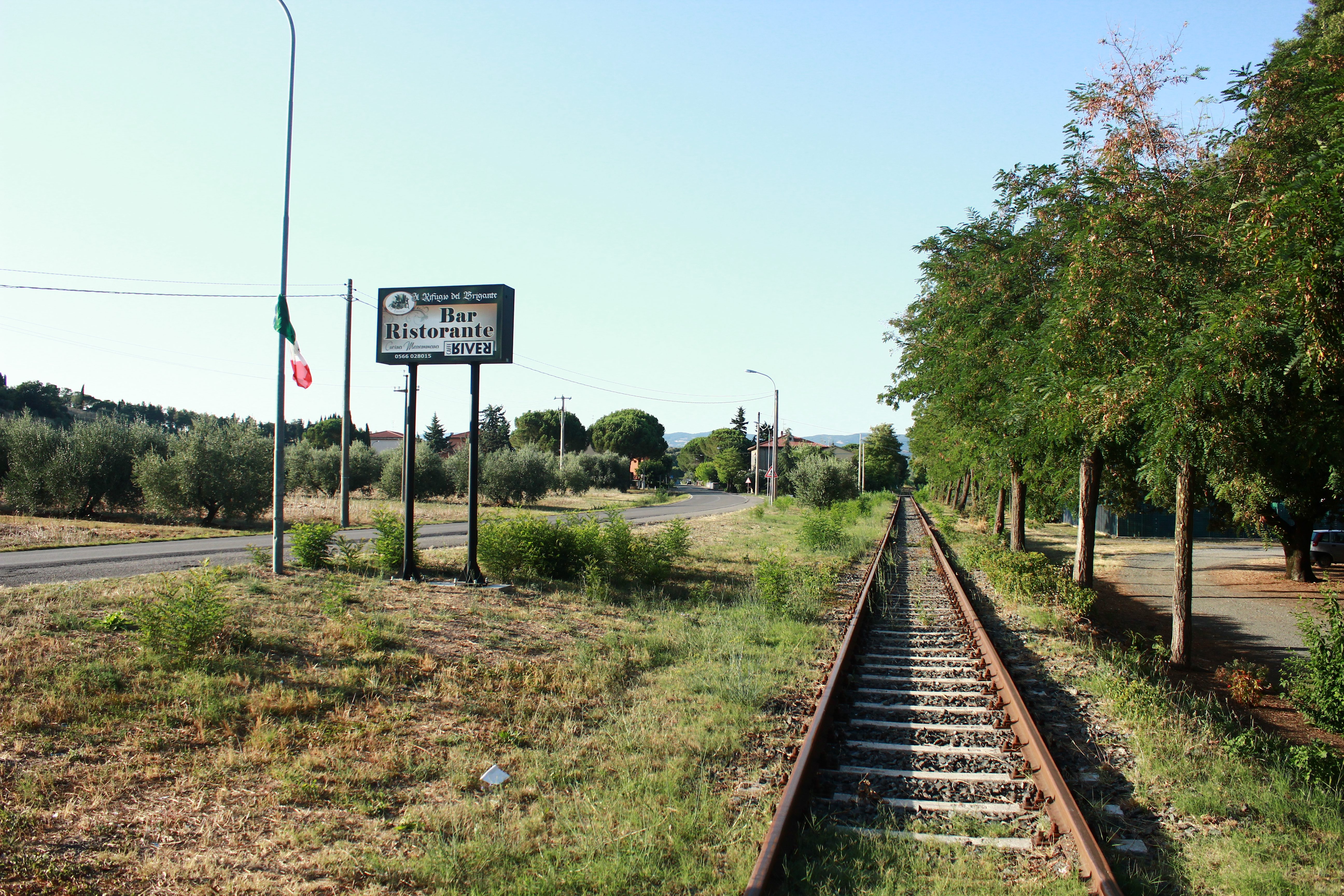 View of Castellaccia, Tuscany